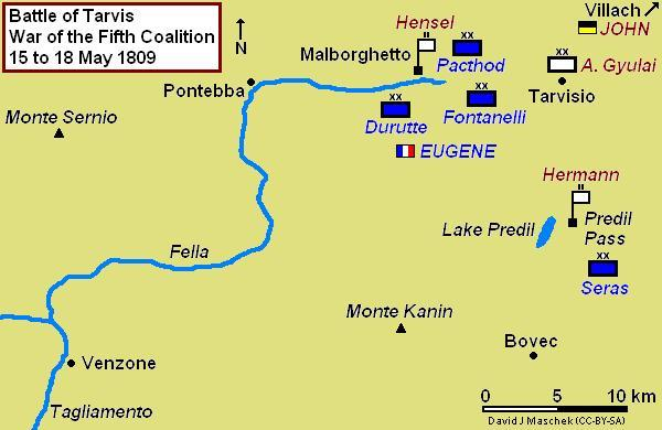 Map showing the Battle of Tarvis, 15-18 May 1809.